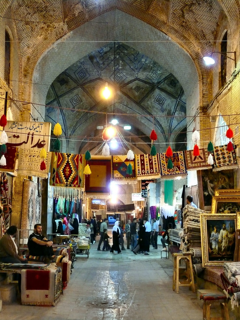 The old Vakil Bazaar (Bazaar-e Vakil) at Shiraz, Fars province, Iran.